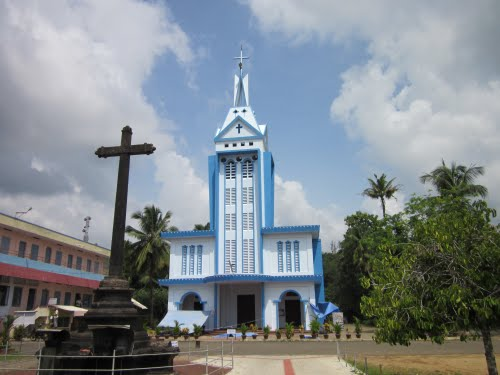 lalam palli palai